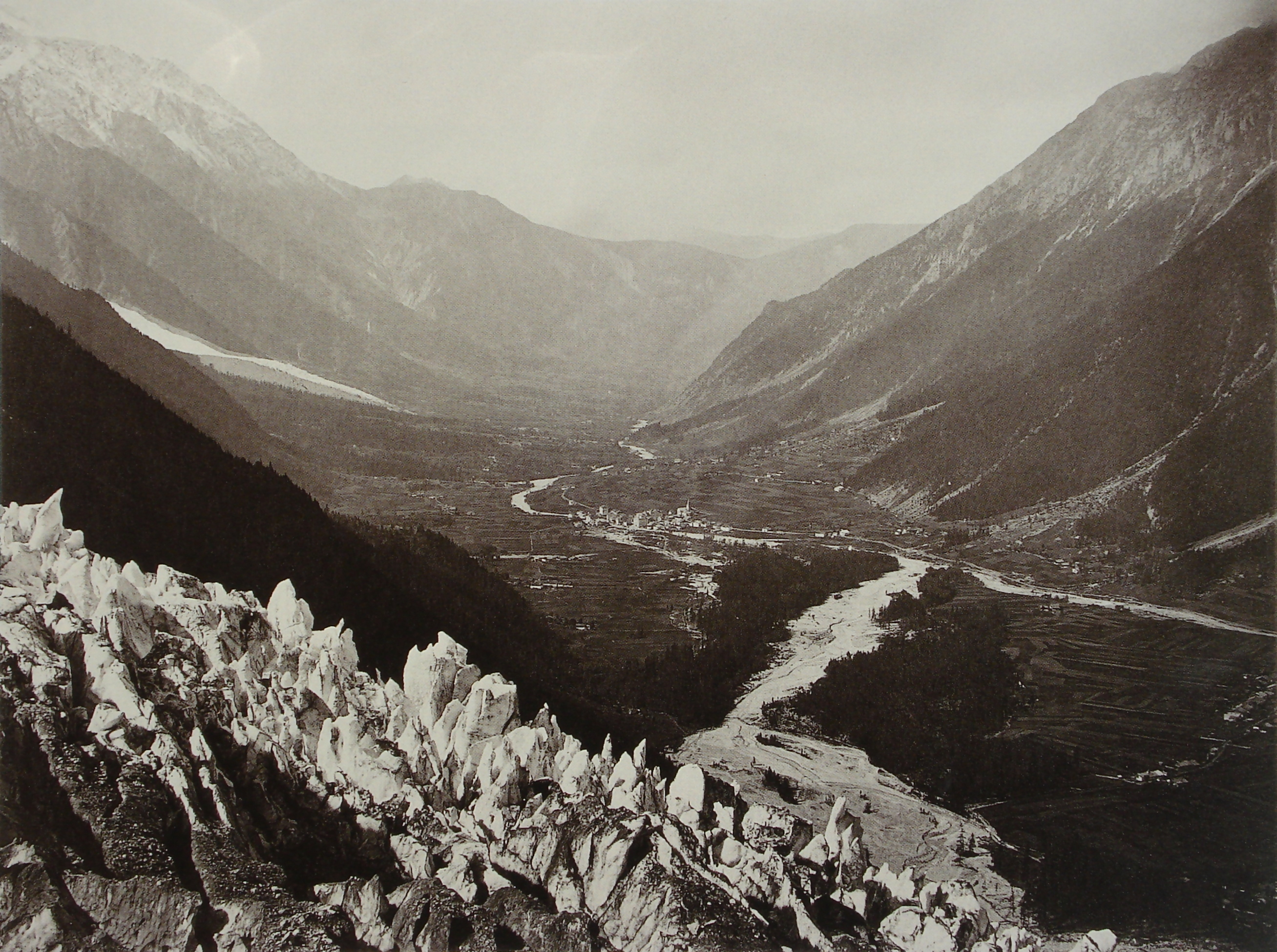 "Vallée de Chamonix vue du Chapeau" ("Valley of Chamonix seen from Le Chapeau"), photography by Bisson brothers. Taken in 1860.